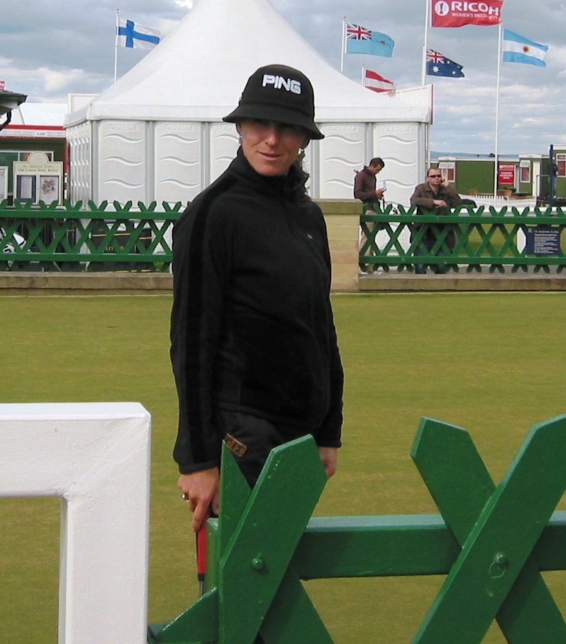 Patricia Meunier-Lebouc at 2007 Womens British Open at St. Andrews